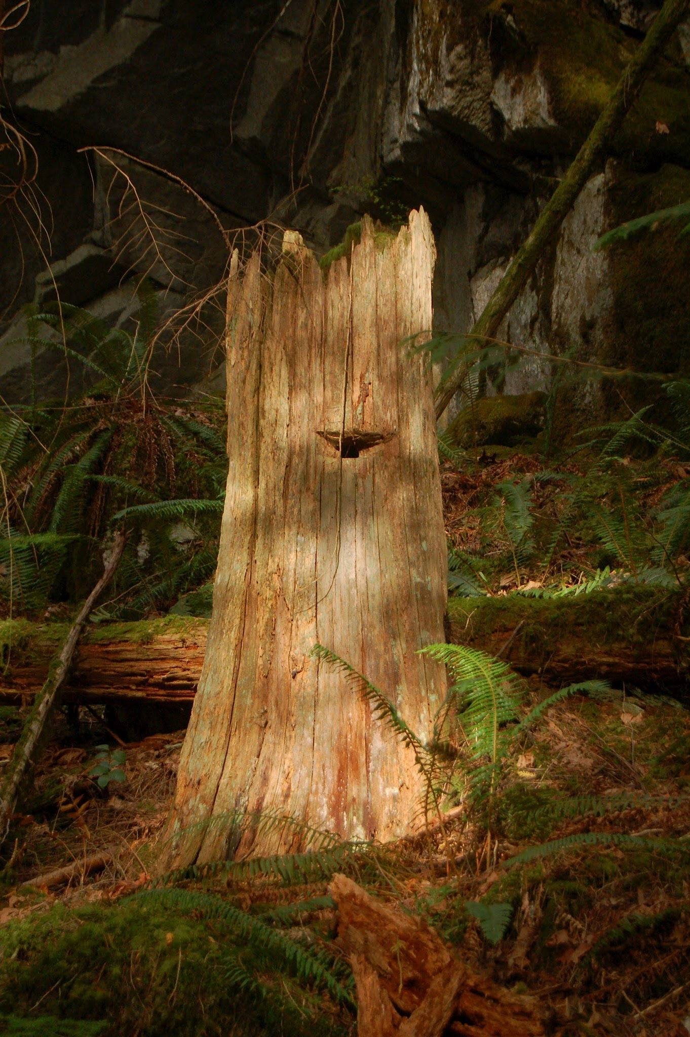 Rainforest, Storm Bay, BC, Canada.